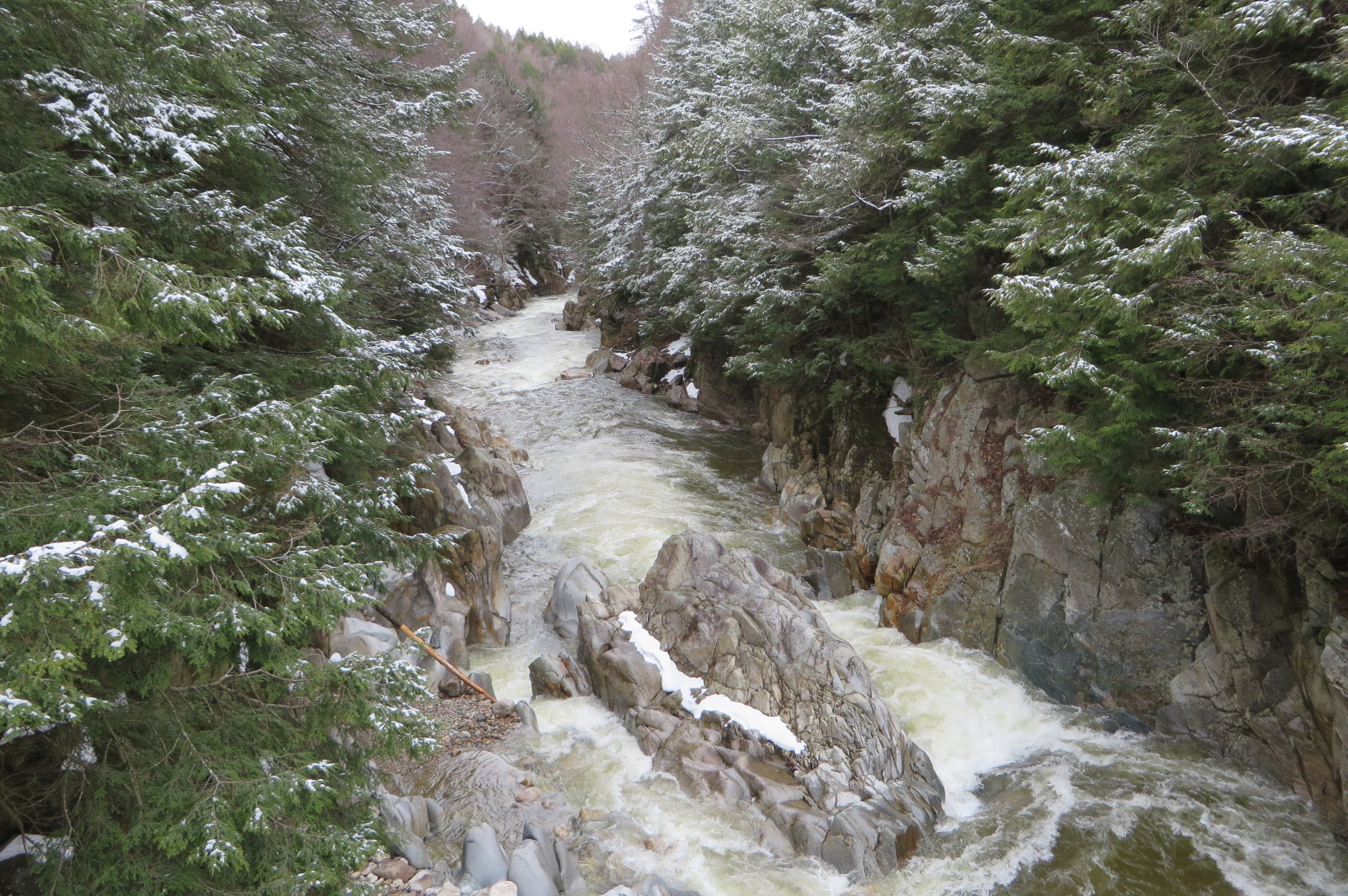 The Mill River in Clarendon Gorge, Vermont, from Long Trail suspension bridge